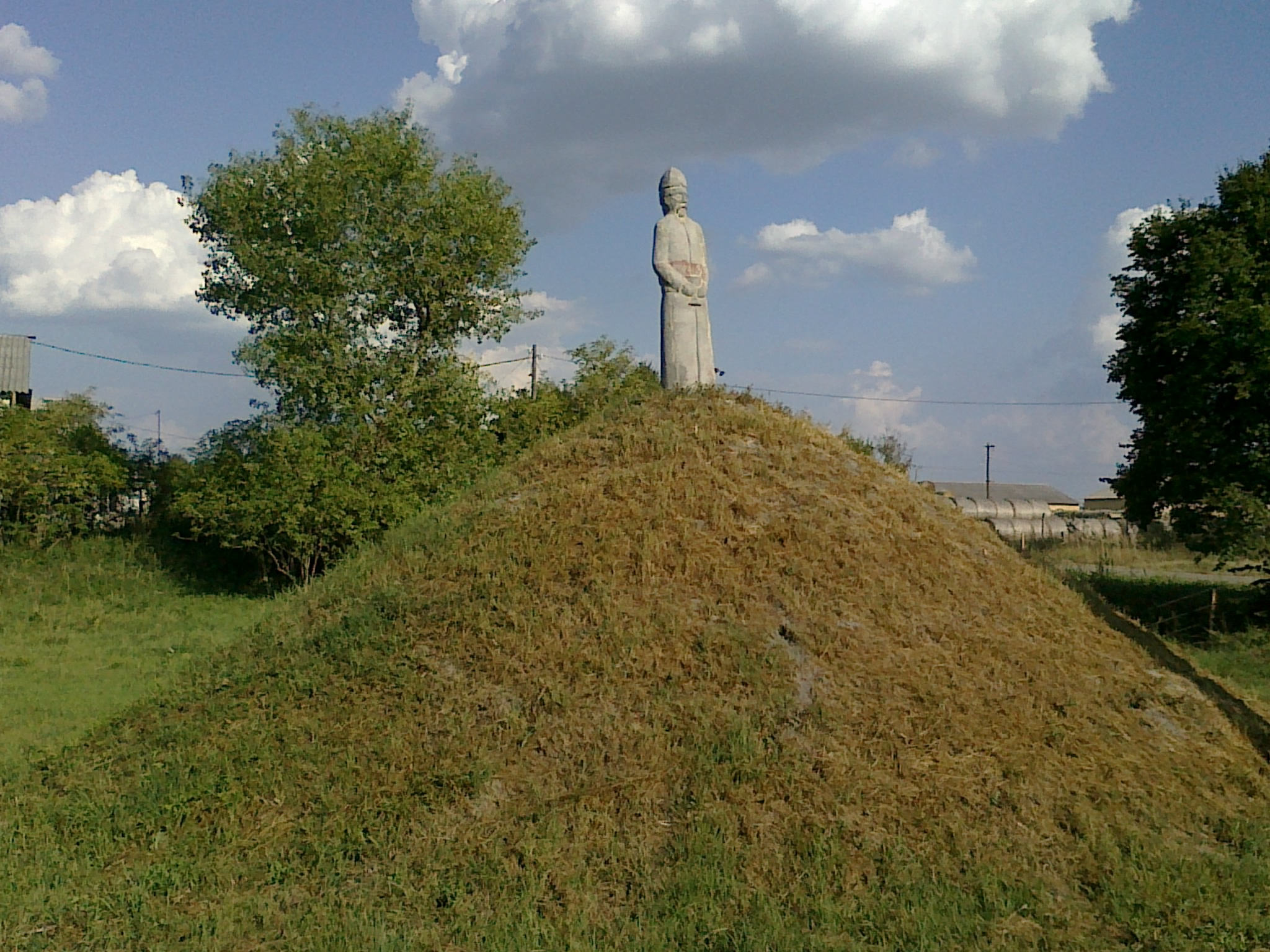 Cuman-mound (kurgan) near the village of Fülöpszállás (Hungary).